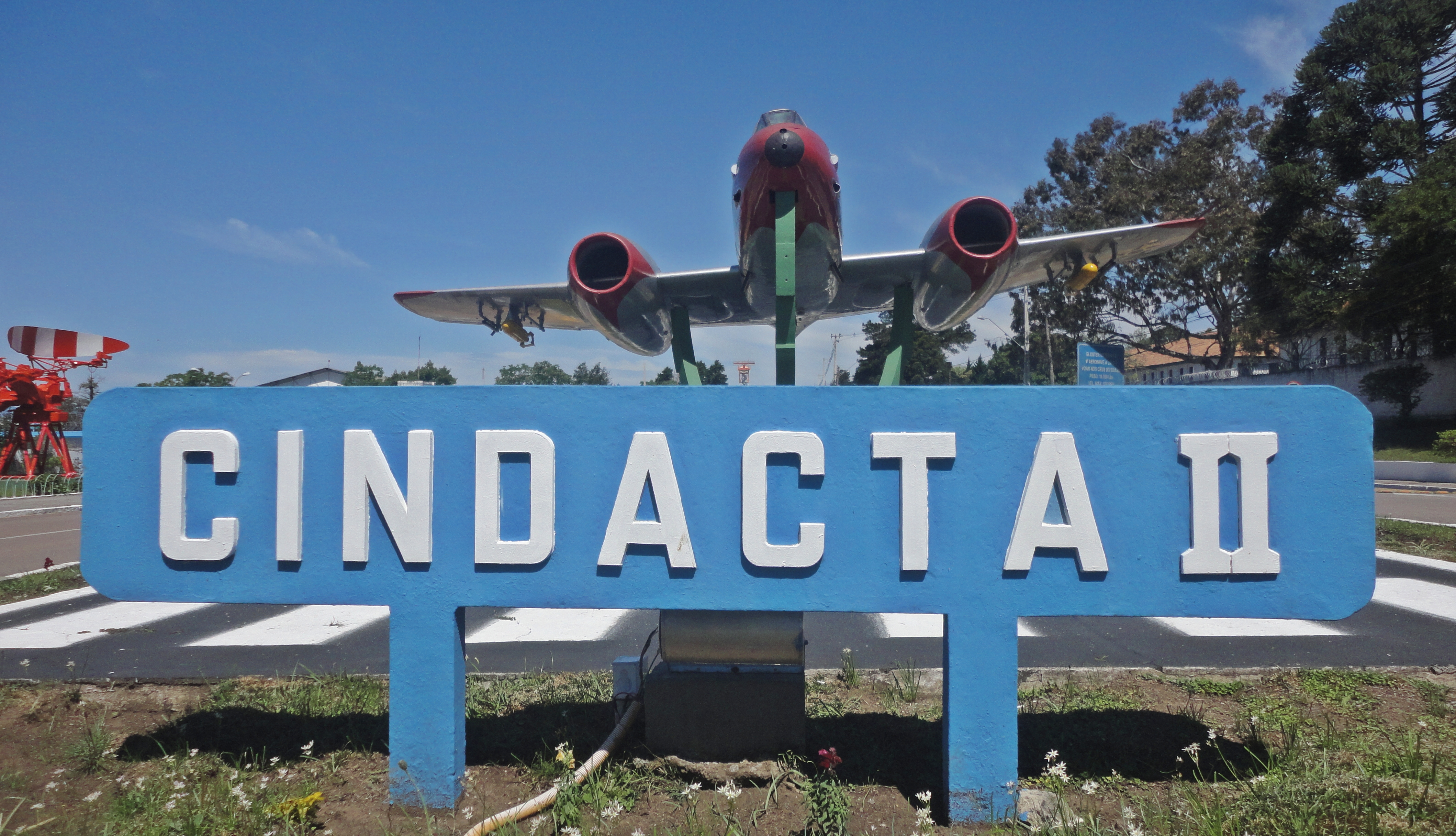 CINDACTA II in Curitiba